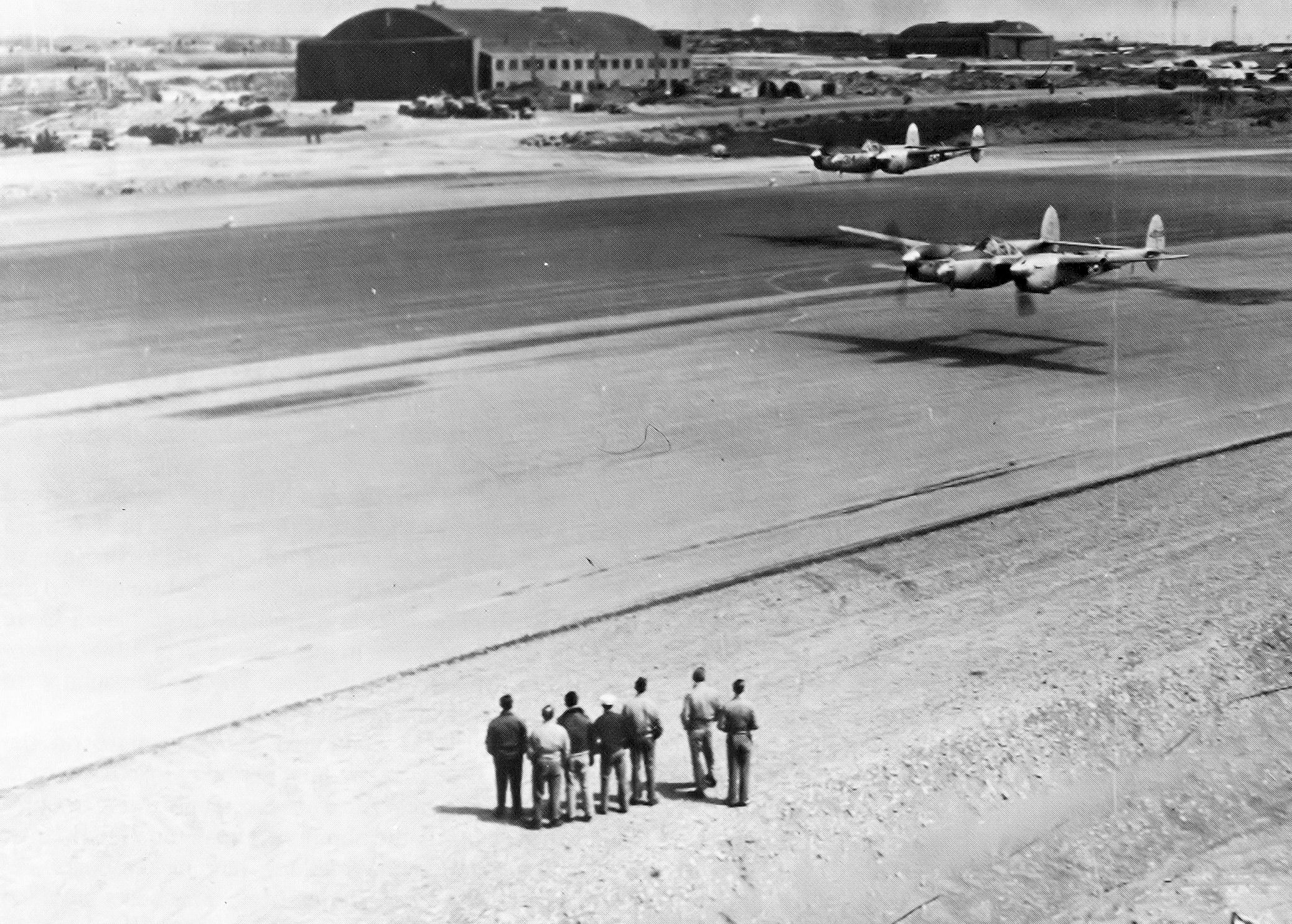 P-38s making a low level pass over the runway at Shemya AAF 1 August 1945 during an Armed Forces Day display.